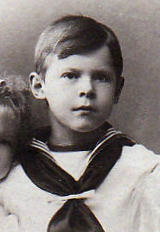 Prince Gottfried of Hohenlohe-Langenburg, about nine years old